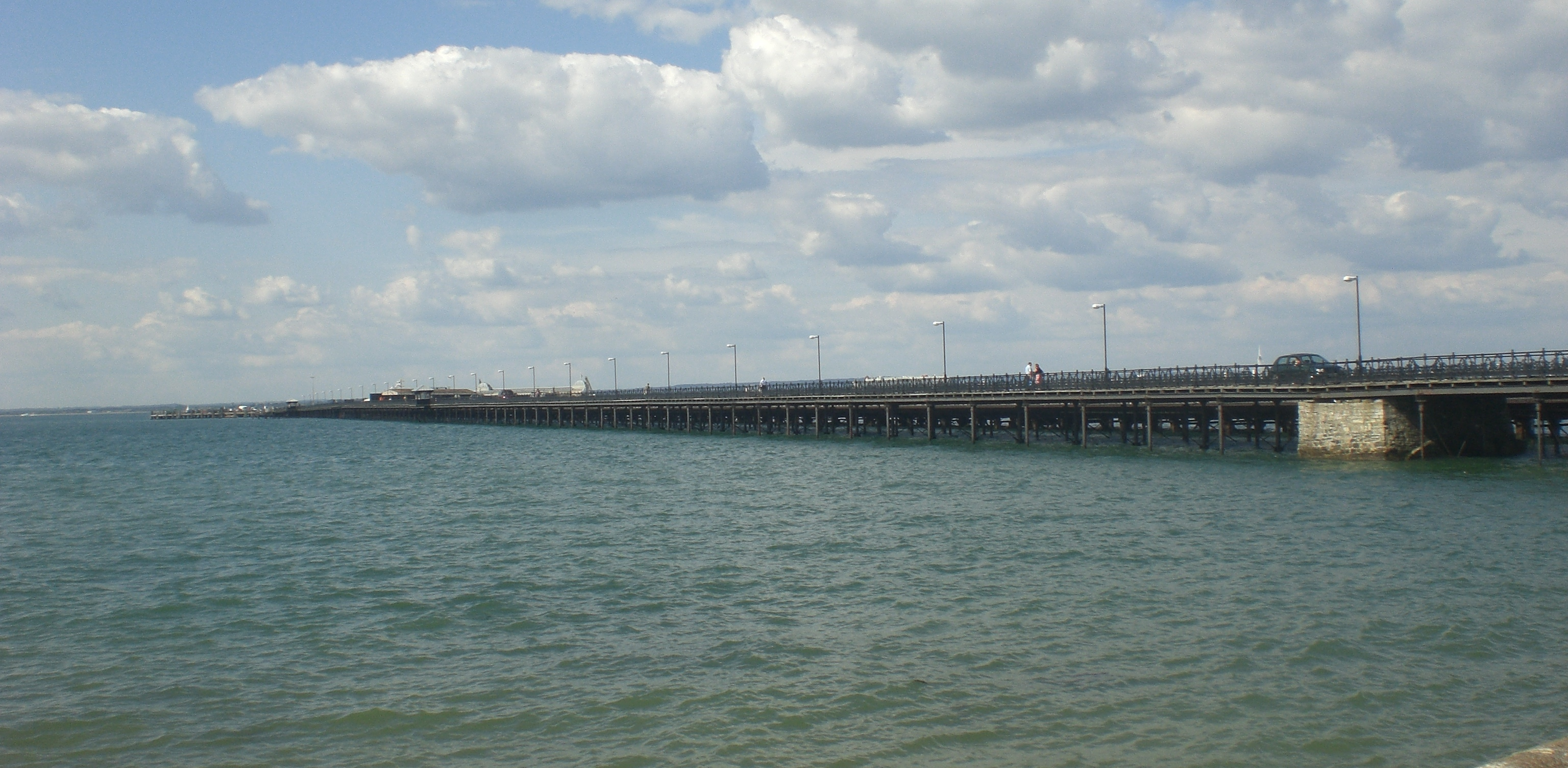 View of Ryde Pier from Ryde.